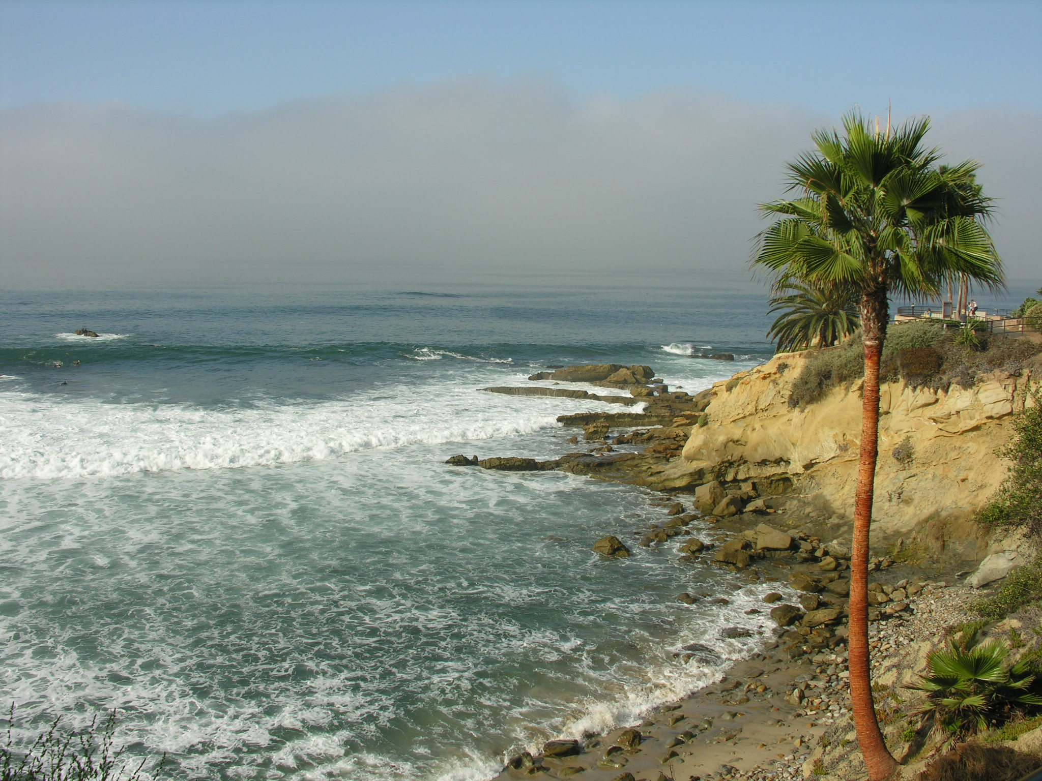 Ocean Front